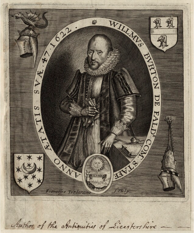 Engraving of William Burton, age 47, by Francis Delaram. Reproduced in the frontispiece to the Description of Leicestershire (1622)